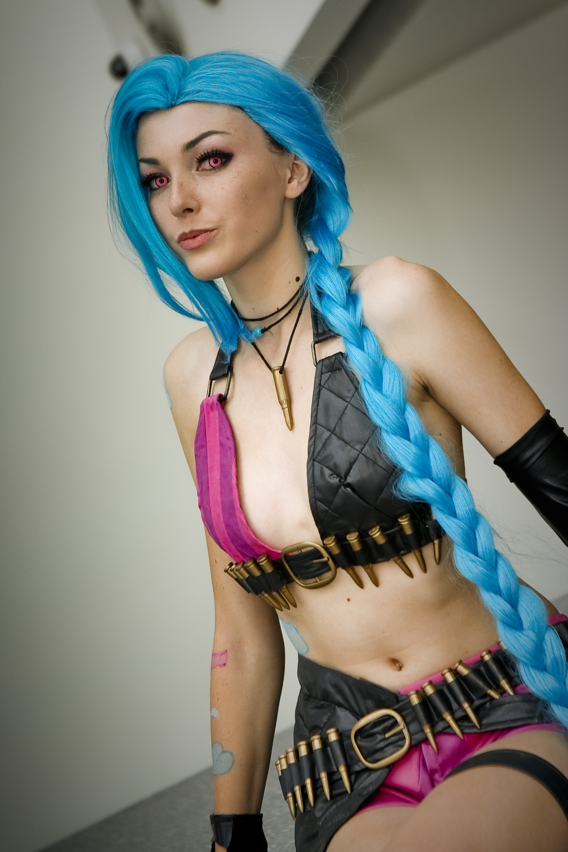 A Jinx cosplayer, a League of Legends champion.